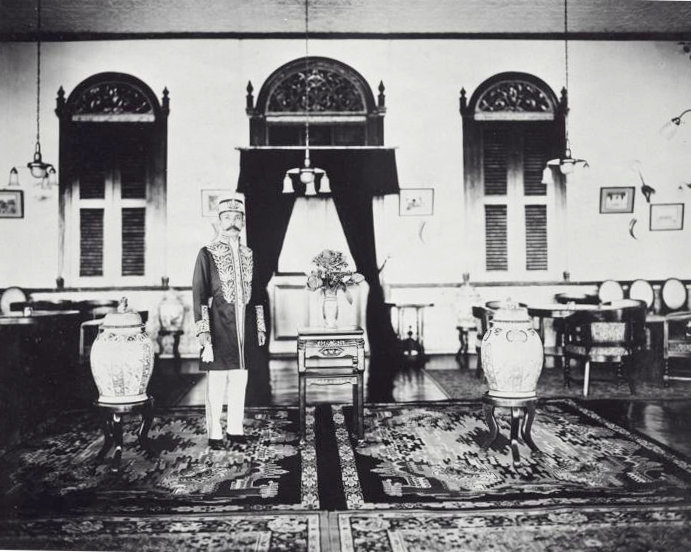 Maulana Mohamad Djalaloeddin, Sultan of Bulungan